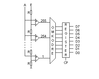 Flash converter